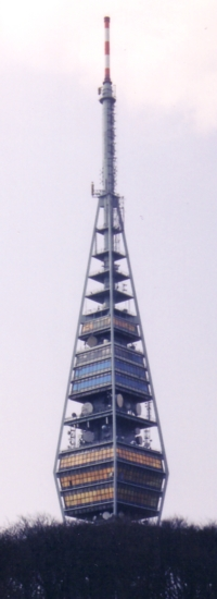 Kamzík TV Tower.